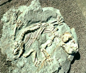 Diictodon fossil at the Karoo National Park